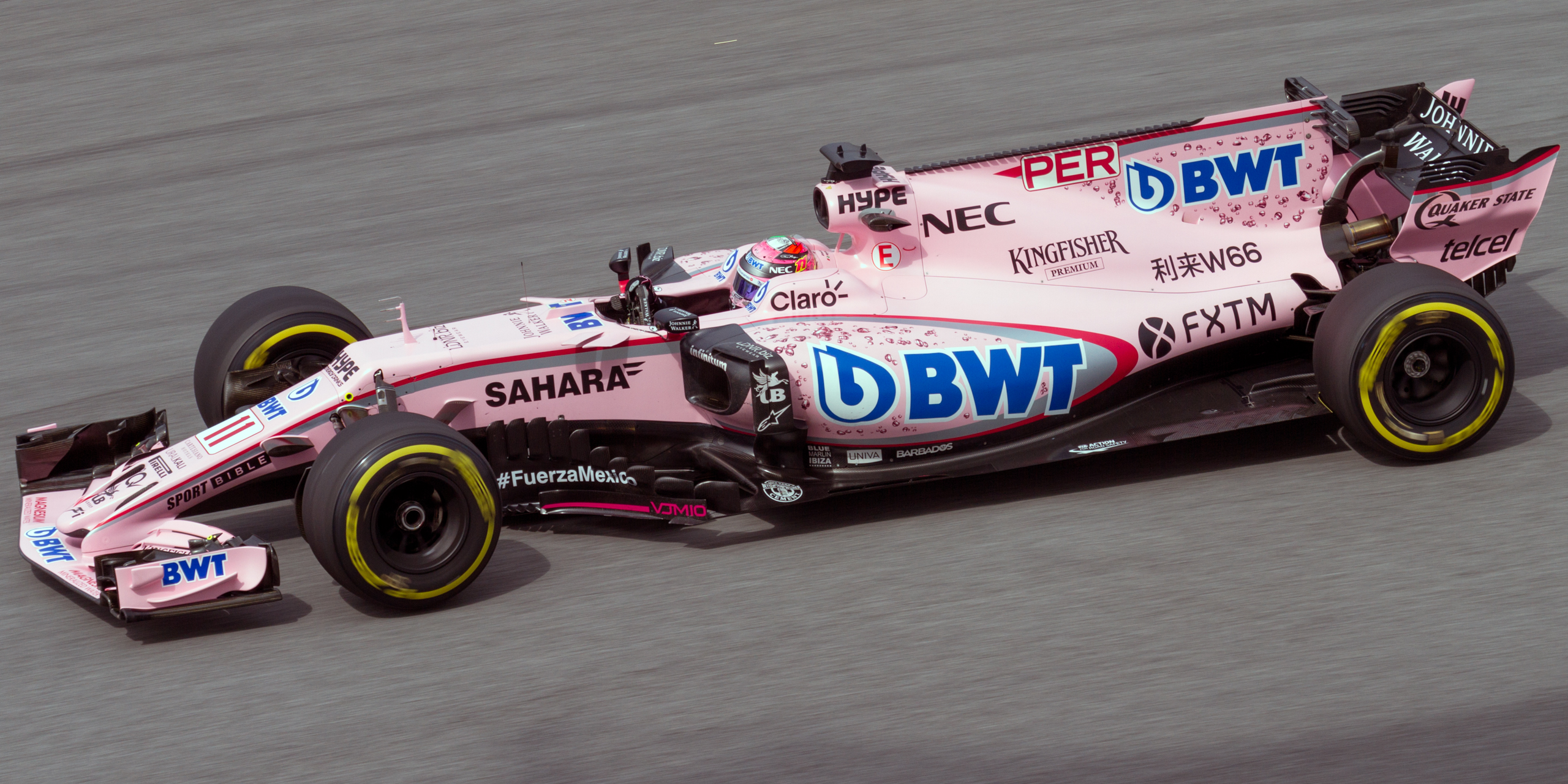 Formula One 2017 Rd.15 Malaysian GP: Sergio Pérez (Force India)